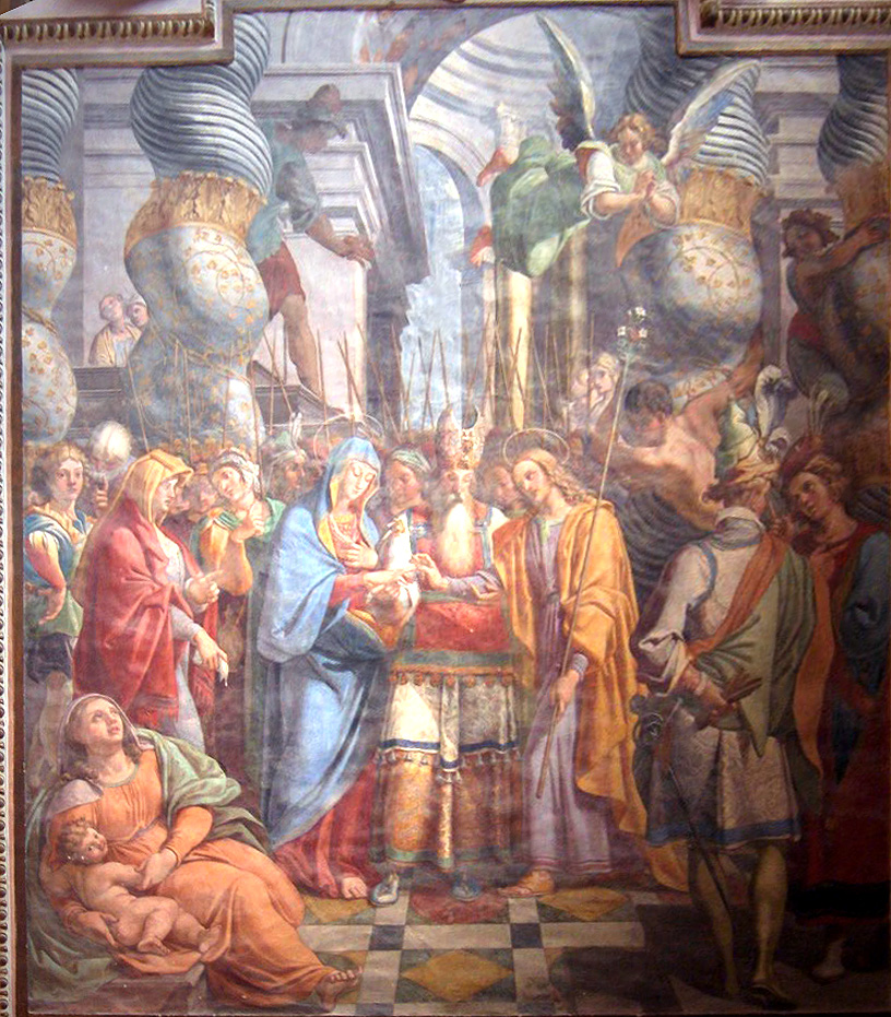 Wedding of the Virgin, painting by Pomarancio (1602-1603); Chapel of St. Anne, Basilica of Santa Maria degli Angeli, Assisi, Italy